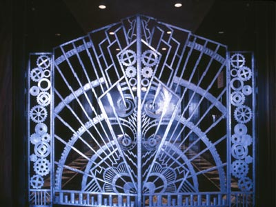 From the collection of the Rene Chambellan family